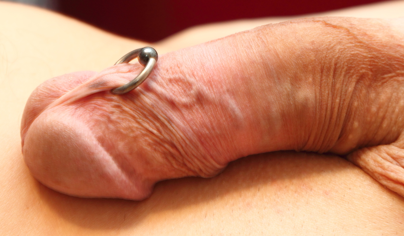 Frenumpiercing BCR 2.4mm